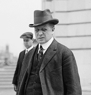 John J. Whitacre, congressman from Magnolia, Ohio.